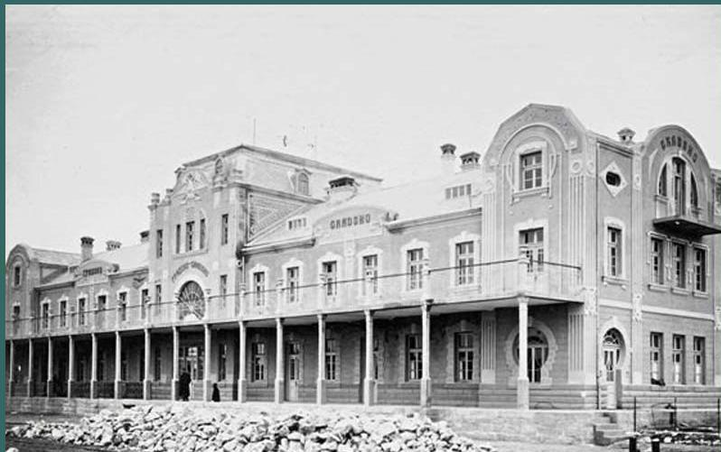 Old train station in Gradsko, Macedonia